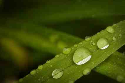 Leaf at the New-Brunswick Botanical Garden